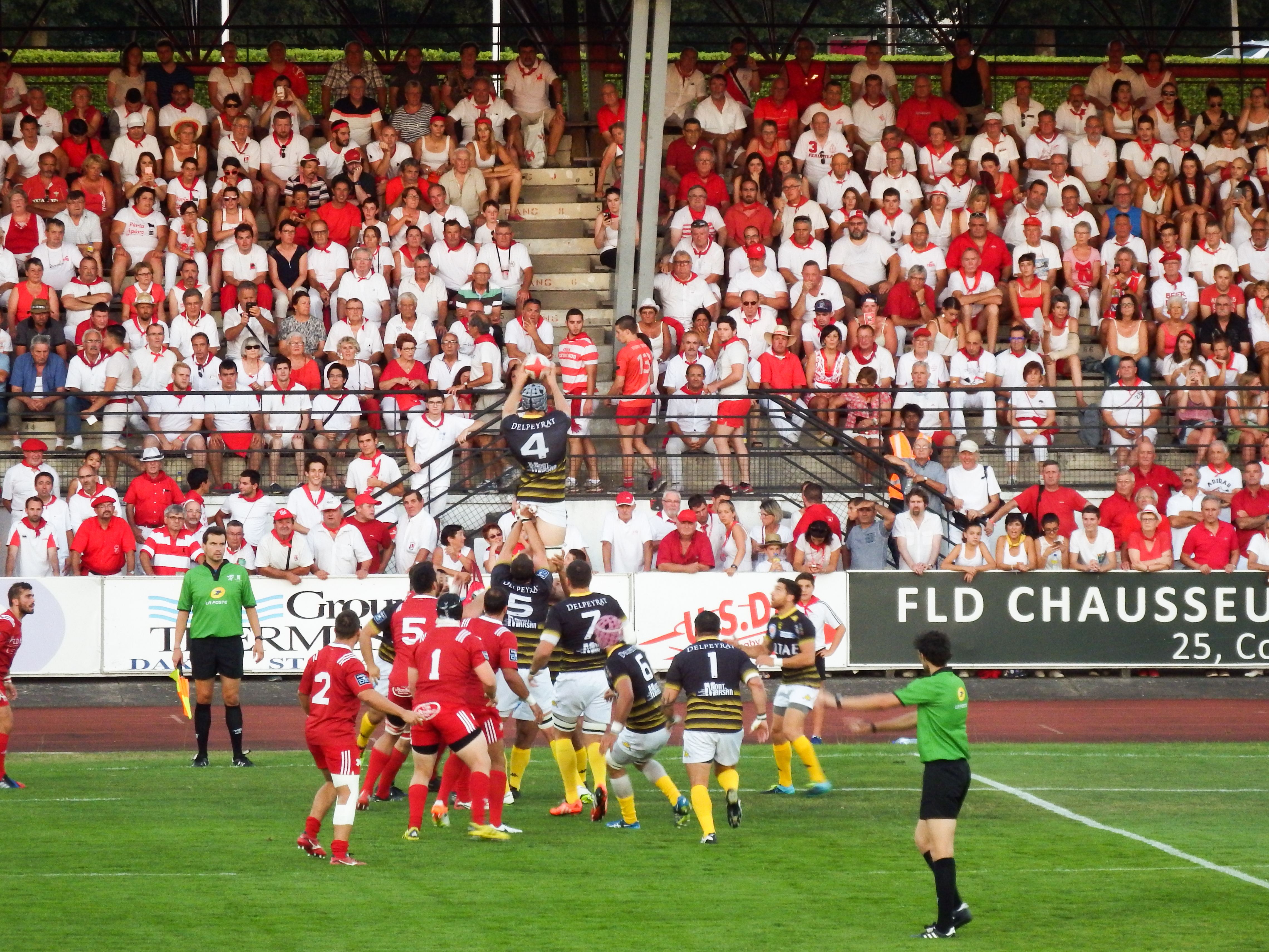 rugby union friendly match — 13 August 2016, stade Maurice-Boyau. Match between: US Dax — Stade Montois